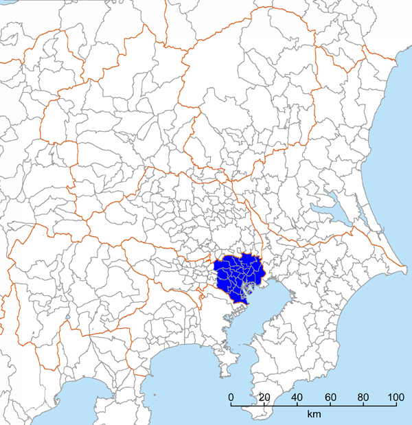 Map of the 23 Special Wards of Tokyo, one of the various definitions of Tokyo/Kanto.